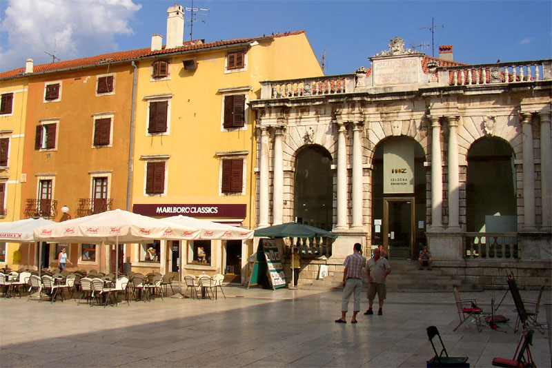 People's Square in Zadar, Croatia